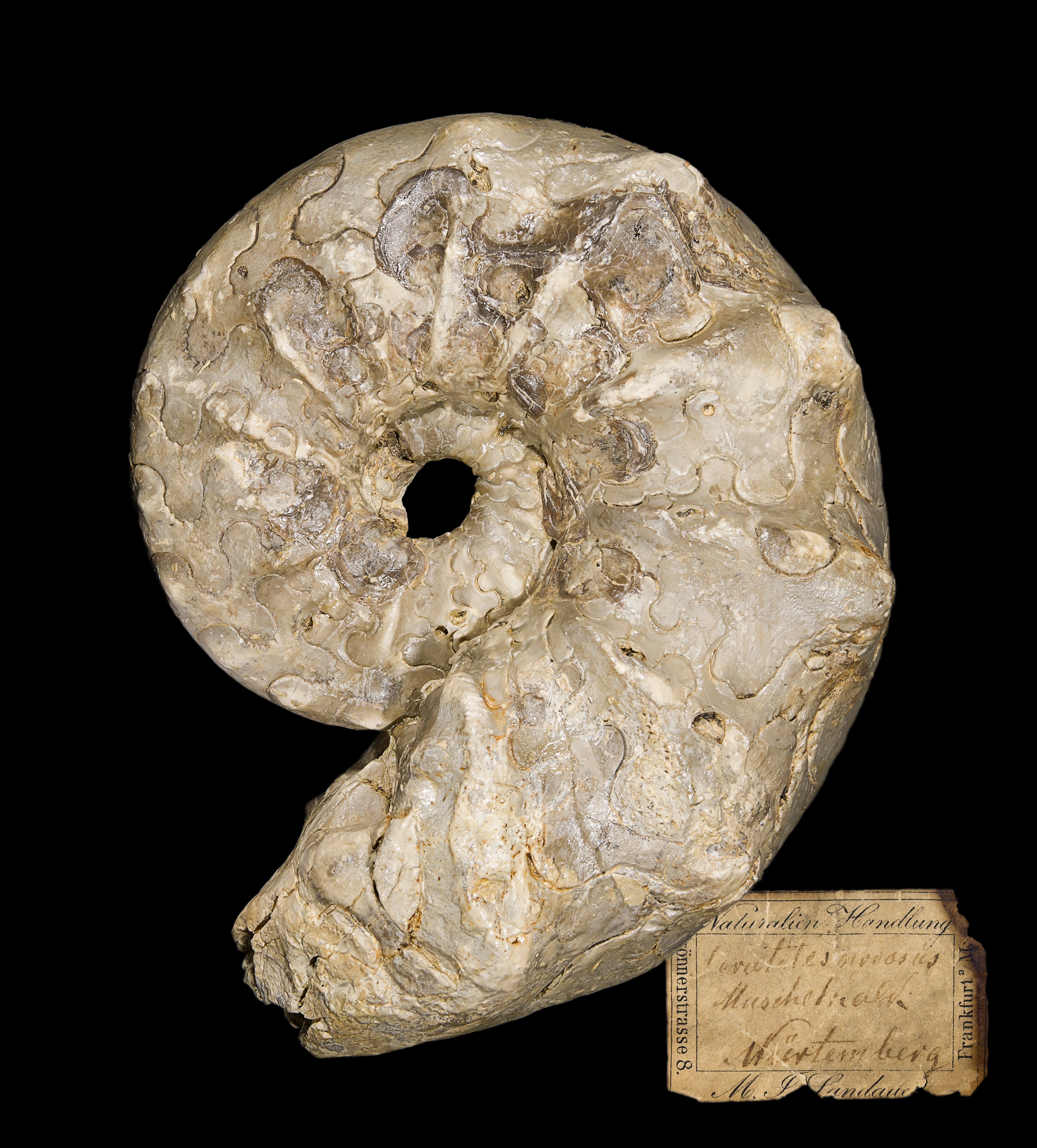 Stage : Upper Muschelkalk, Meißner-Formation from 245 Ma to 235 Ma (million years ago) Locality: Baden-Württemberg , Germany Size : 14 x 11.5 x 4 cm